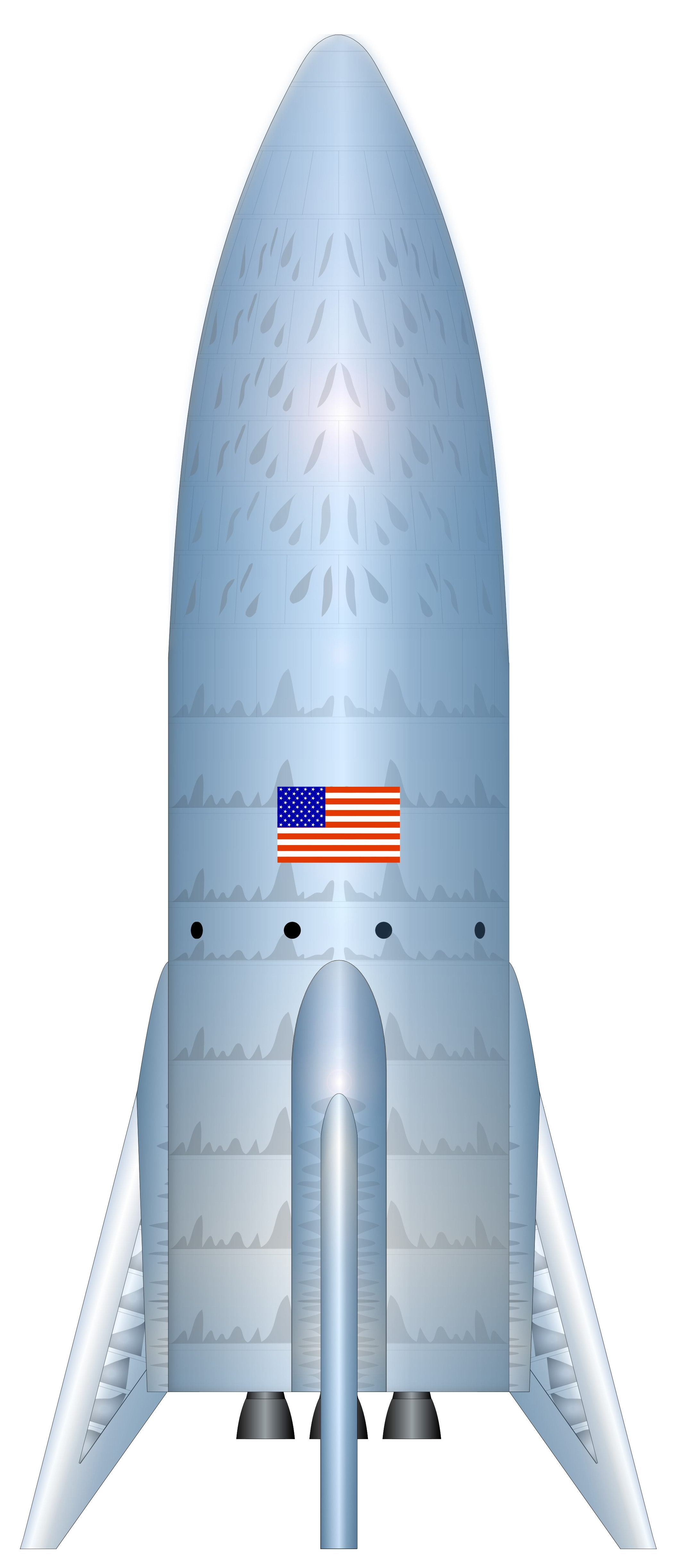 Drawing of SpaceX "starhopper" demonstration rocket, showing the backside of the original Starhopper as it is e.g. depicted in this SpaceX photo. The "nose cone" of the Starhopper was subsequently damaged by high winds, and then scrapped, and then the cladding was crumpled when installing the upper bulkhead. SpaceX then said the Starhopper test article would conduct testing, including low-altitude low-velocity flight testing, without any nose cone at all, the stubby tank section of the vehicle. The stubby tank section only goes to just above the level of the top of the legs, and the only propellant tankage in Starhopper are below that level. Thus, this artist's view never properly represented the internal tanks of Starhopper, and by February 2018, it no longer represented the external size/aspect ratio "look" of the Starhopper either.